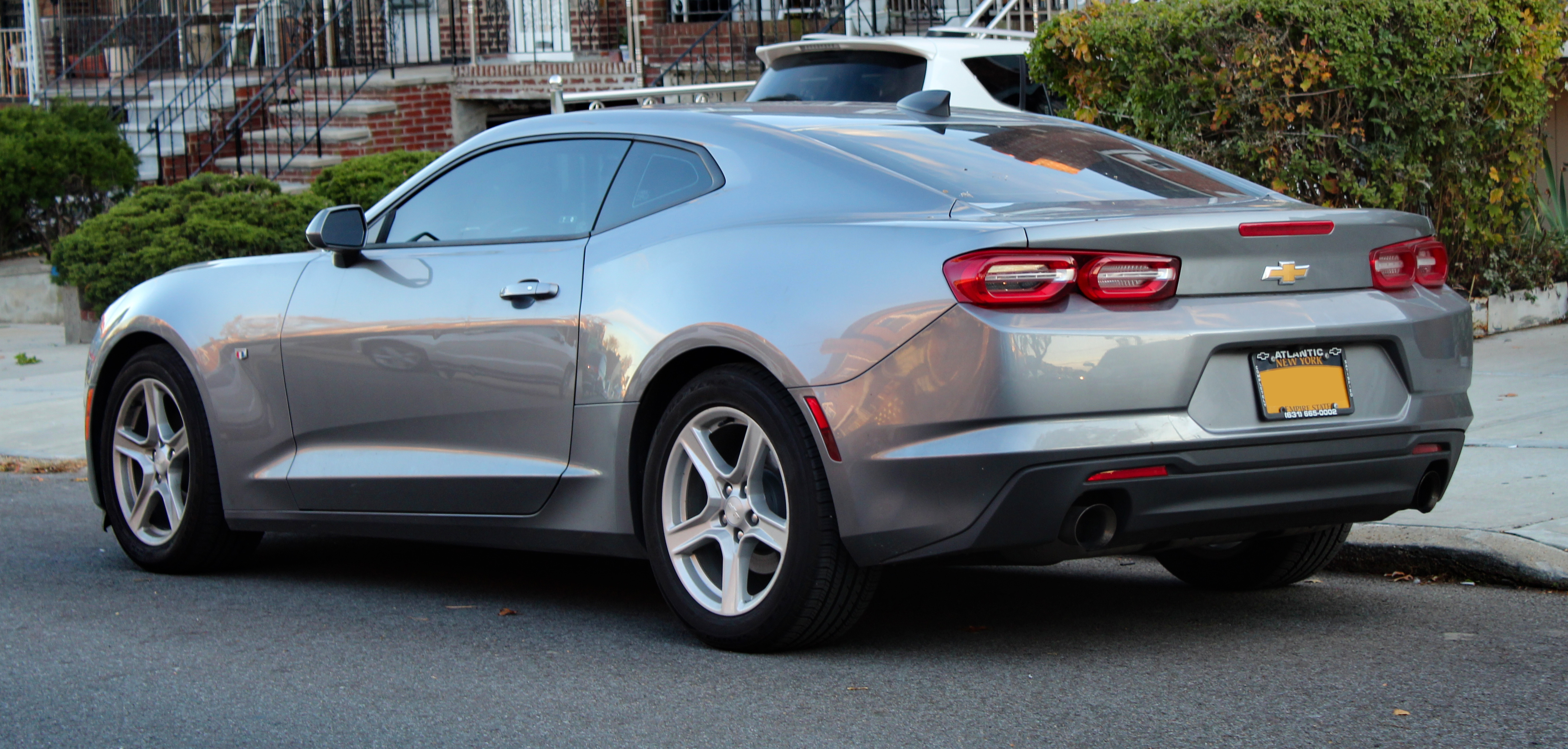 A 2019 Chevrolet Camaro photographed in Kew Gardens Hills, Queens, New York, USA